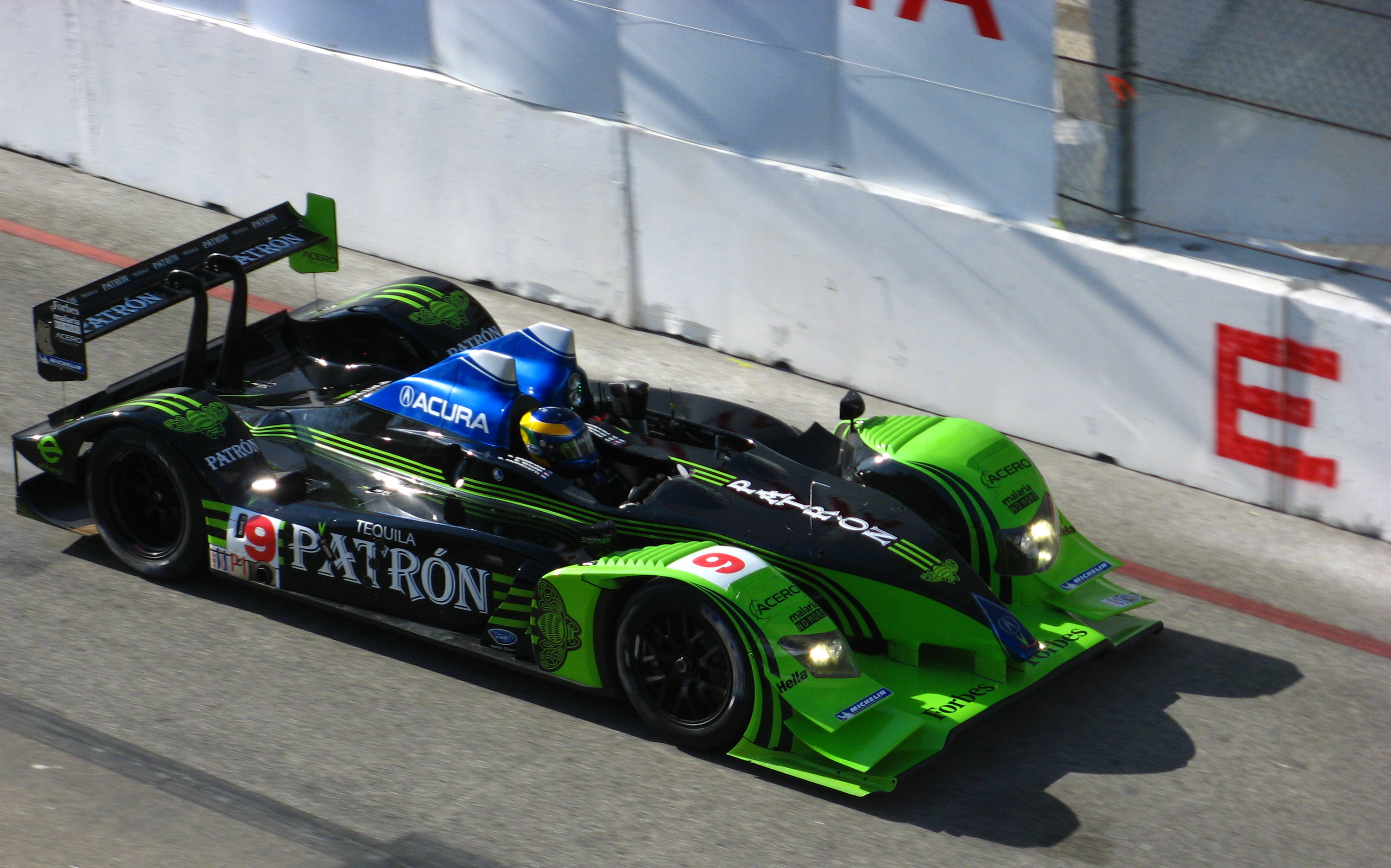 David Brabham entering the back straight at the 2009 Grand Prix of Long Beach during ALMS Friday Practice.